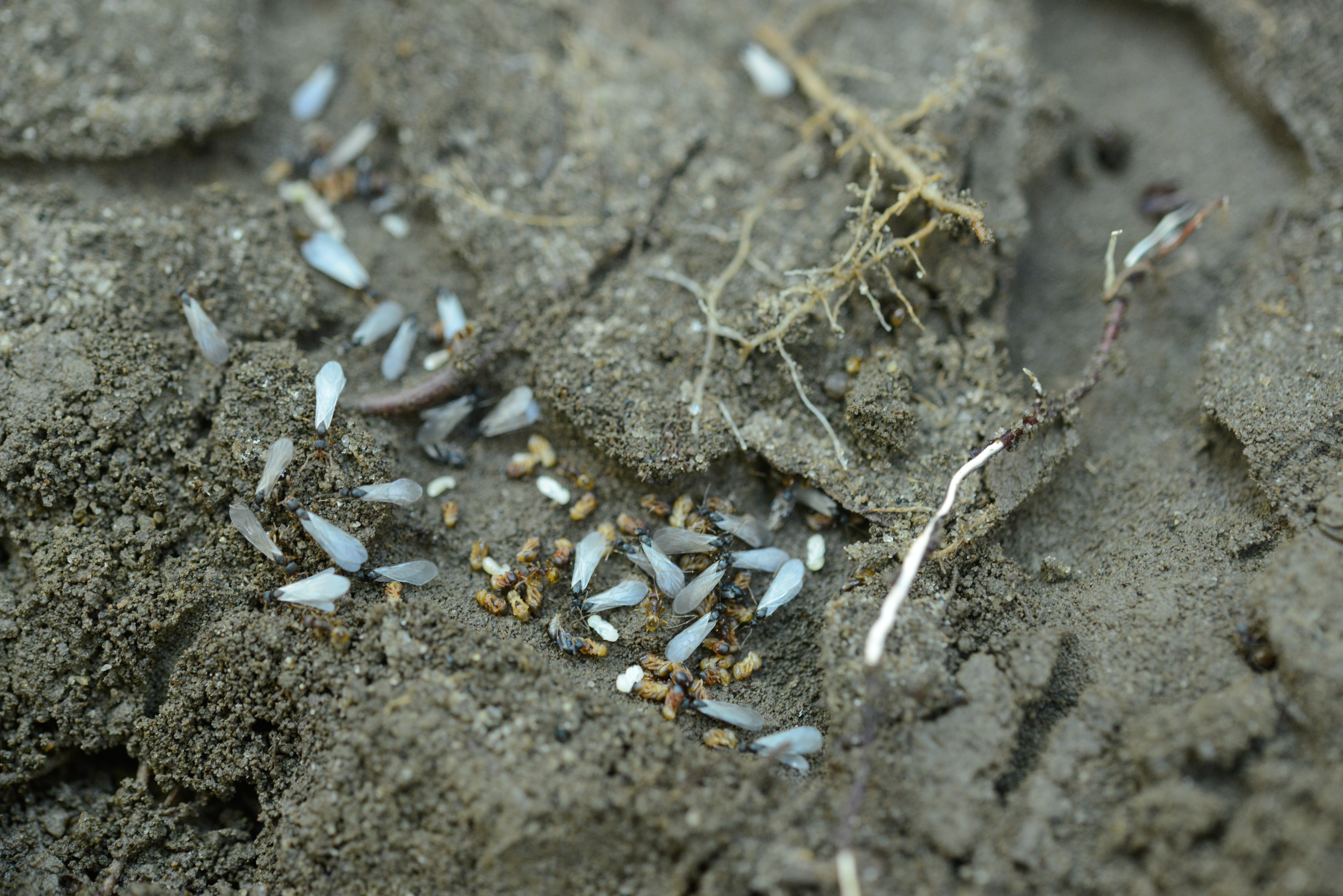 Colony of Stenamma debile ants. From Nedre Timenes in Kristiansand, Vest-Agder, Norway.